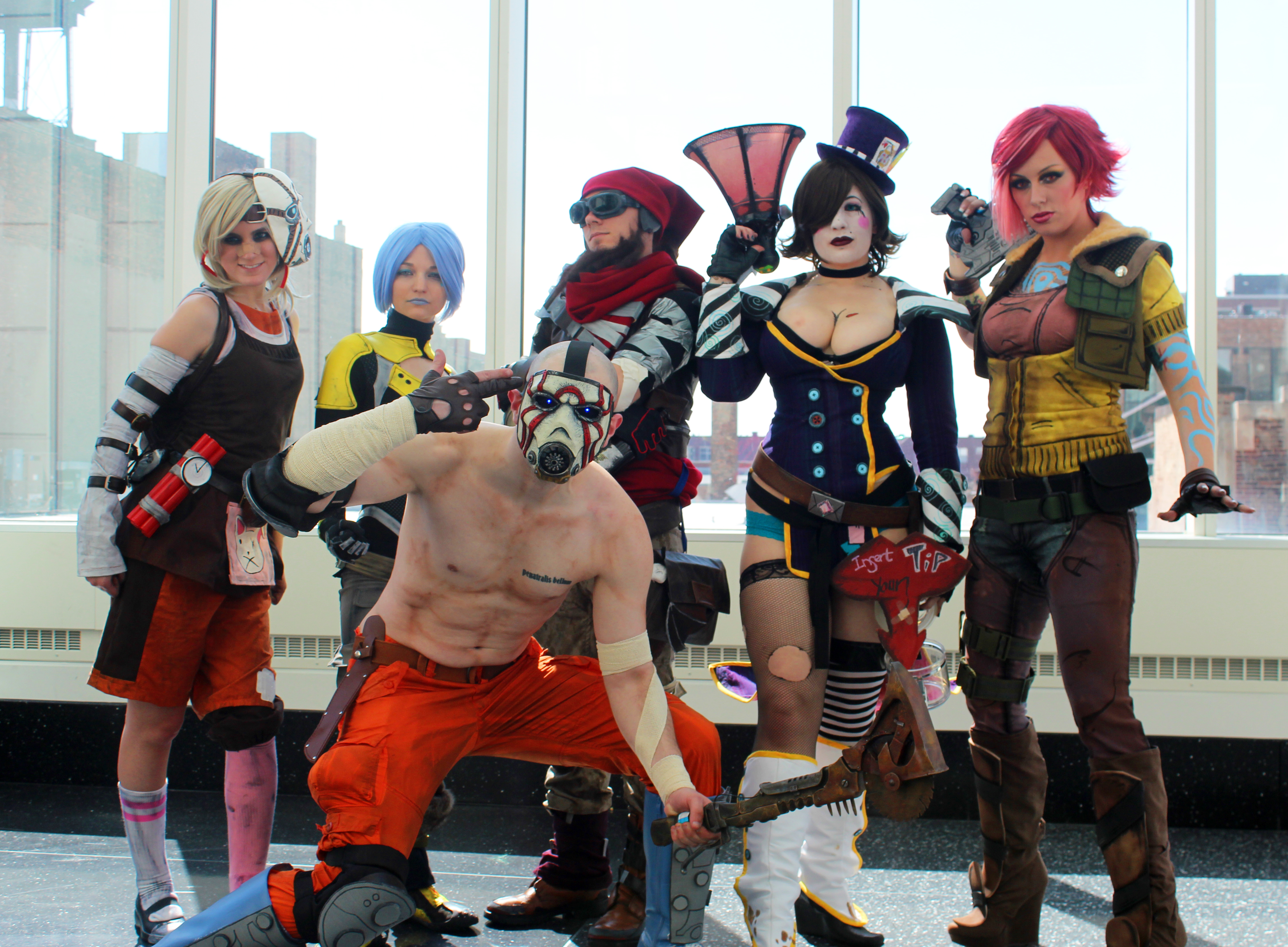 Cosplay at the 2013 Chicago Comic & Entertainment Expo (C2E2).